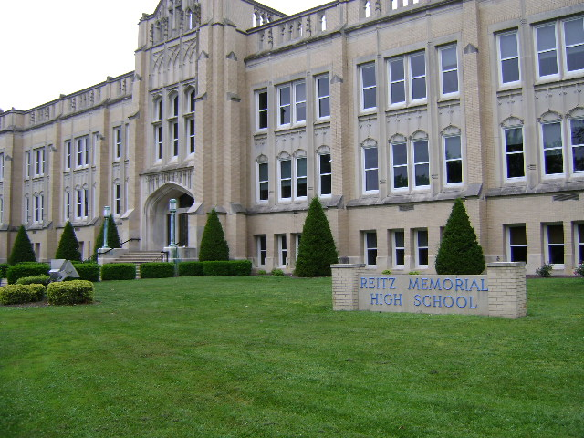 Reitz Memorial High School, Evansville, IN Front entrance on Lincoln Avenue.